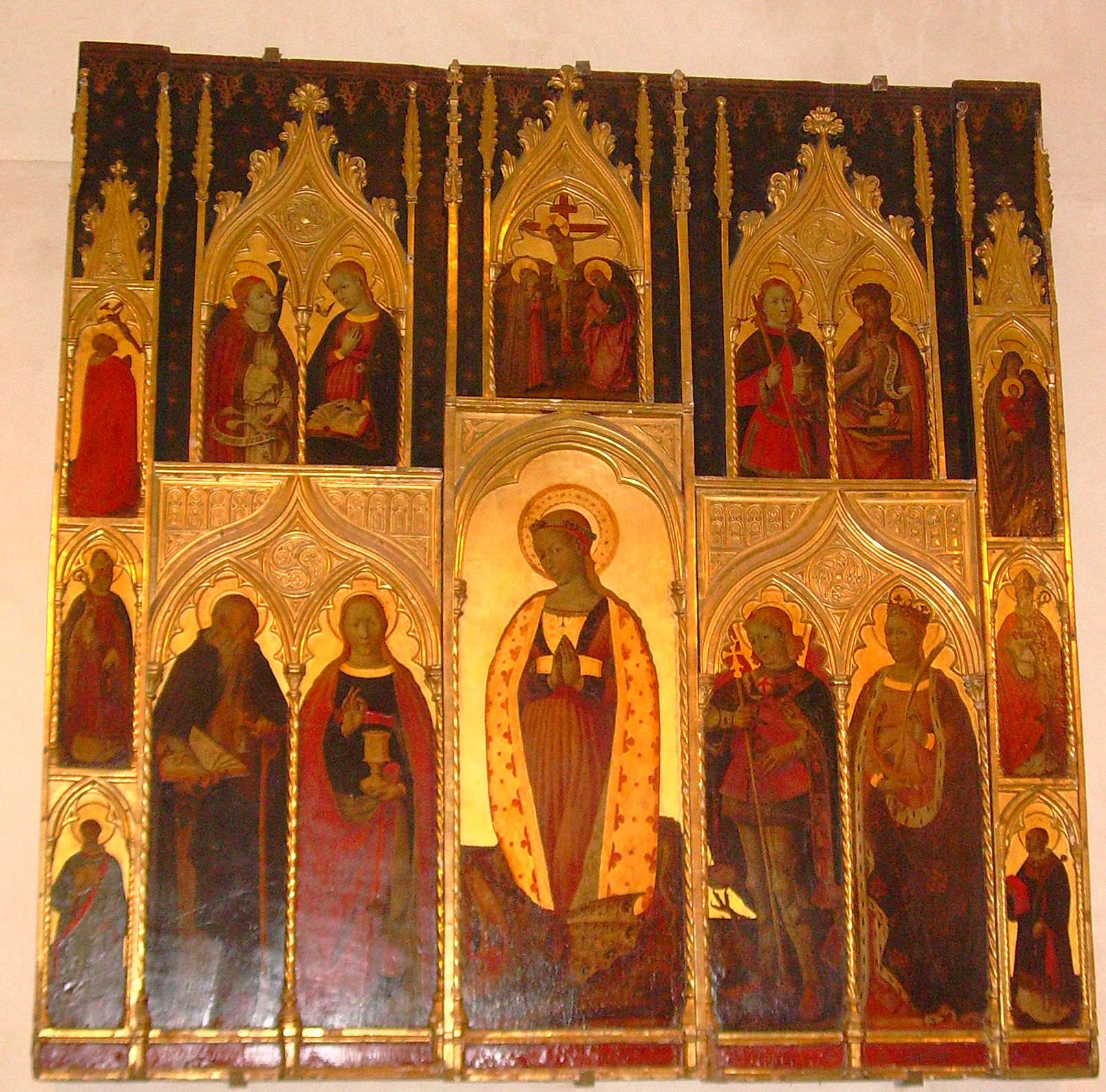 Polyptych Saint Margaret of Antioch in Saint-Leonce Cathedral, Frejus, France by Jacopo Durandi (1410-1469)